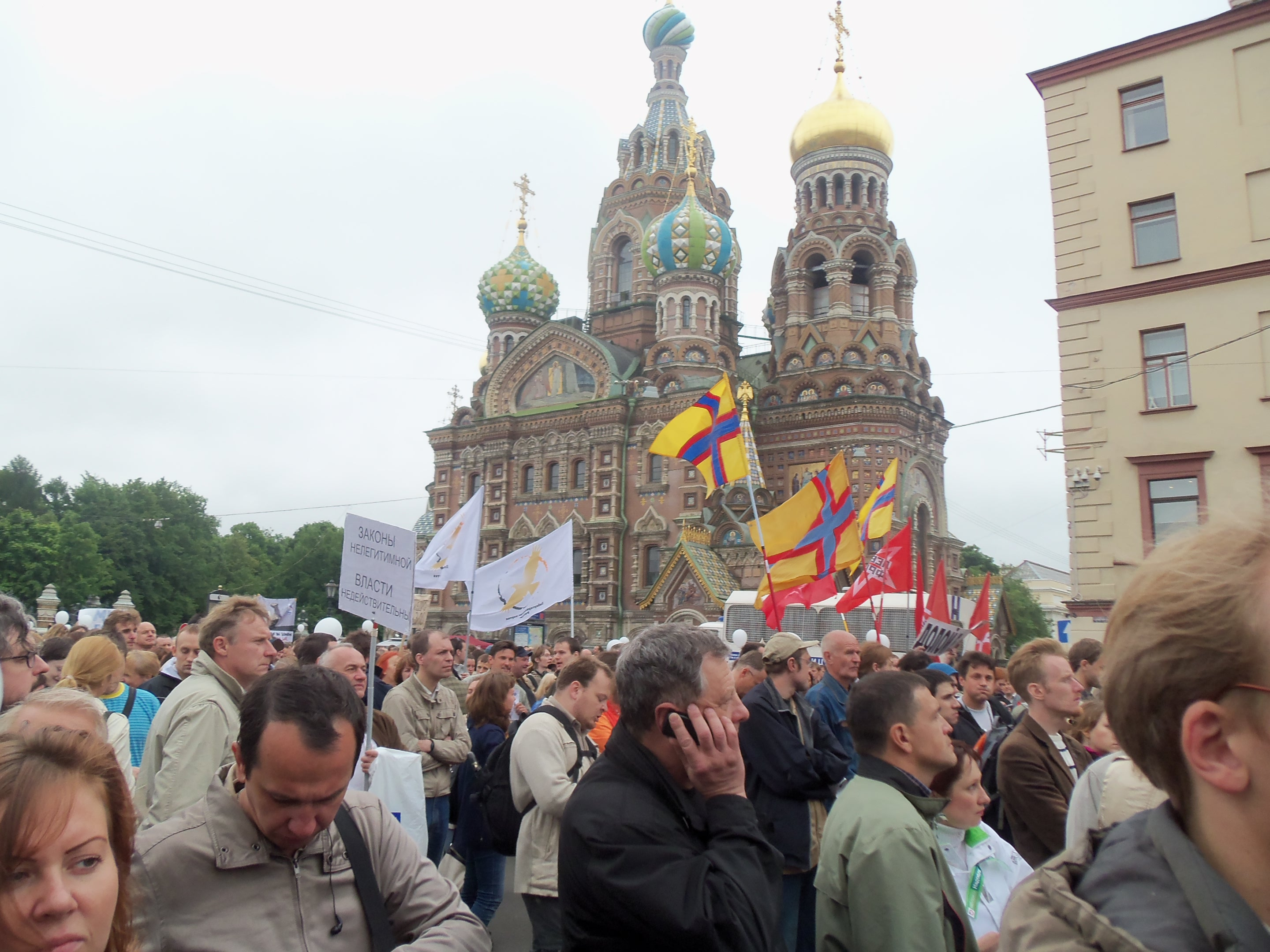 The meeting at Konyushennaya Sqaure on 12 June 2012